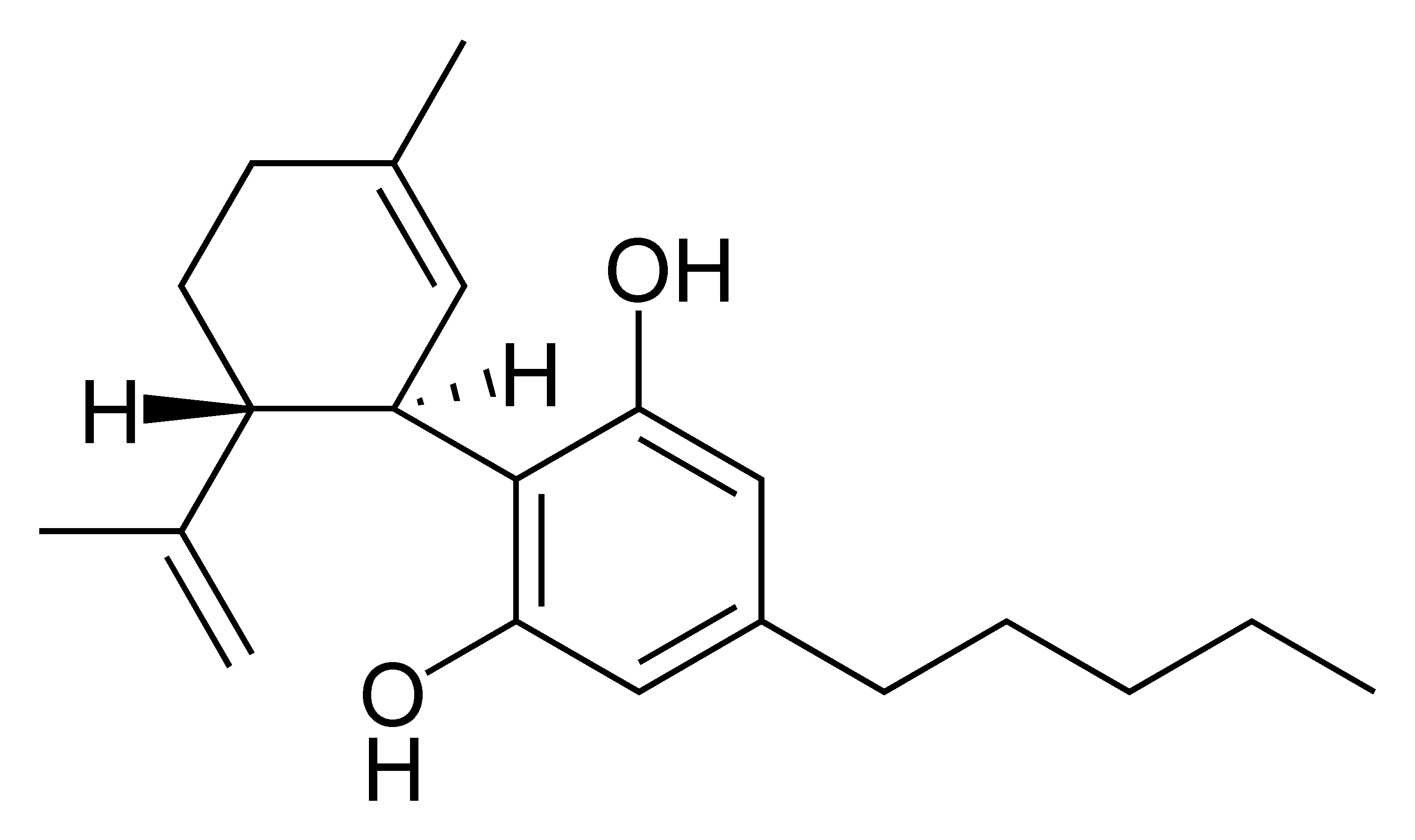 Description: chemical structure of cannabidiol Author: Cacycle Date of creation: 8 January 2006 (UTC) Source: selfmade Copyright: GNU Free Documentation License (GFDL) Creative Commons License (attribution, sharealike, 2.5) (cc-by-sa-2.5) Comments: high-resolution black/white PNG made with ChemDraw and IrfanView — see my Wikipedia user talk page for a detailed description. Please drop me a note if you want to change the image or need the ChemDraw .cdx source file.